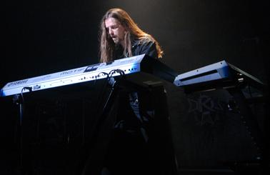 Oliver Palotai on a Kamelot concert.